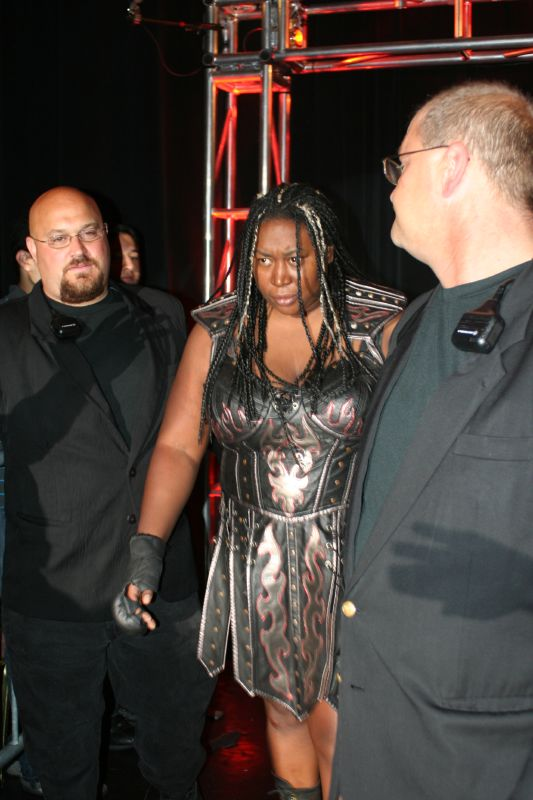 Professional wrestler Awesome Kong (real name Kia Stevens) entering the arena at a TNA show in September 2008.